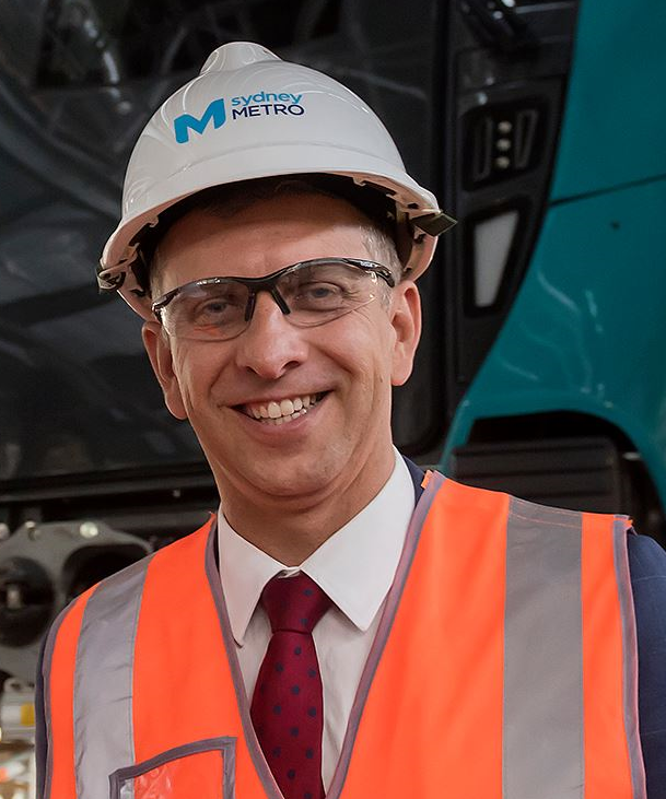 Announced on the 162nd anniversary of the first train to run in New South Wales on 26 September 1855. Publicity photograph of the NSW Minister for Transport and Infrastrucure, Hon Andrew Constance announcing the delivery of Sydney's first driverless Metro train on 26 September 2017. From Sydney Metro's website: "Sydney’s first metro train has arrived and is getting ready to hit the tracks and revolutionise public transport in Australia. The six carriages of the first metro train have arrived at the Sydney Metro Trains Facility at Rouse Hill and will be prepared for testing over the coming months. In two years, people living in the North West will get a train every four minutes in the peak in each direction, a level of service never before see in Australia. Services will extend into the CBD by 2024. Sydney Metro will have an ultimate capacity of a metro train every two minutes in each direction under the city. The $8.3 billion Sydney Metro Northwest project is Stage 1 of Sydney Metro, which will be the first fully-automated metro rail system in Australia. Sydney Metro Northwest includes eight new metro stations, five existing stations upgraded to metro standards and 4,000 new commuter car parking spaces." Picture: Transport for NSW, Sydney Metro, publicity.